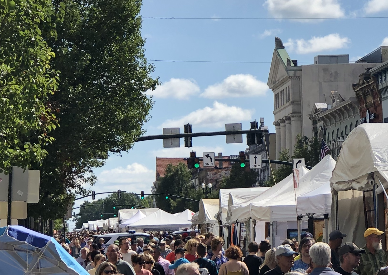 Black Swamp Arts Festival 2019 in Bowling Green, Ohio